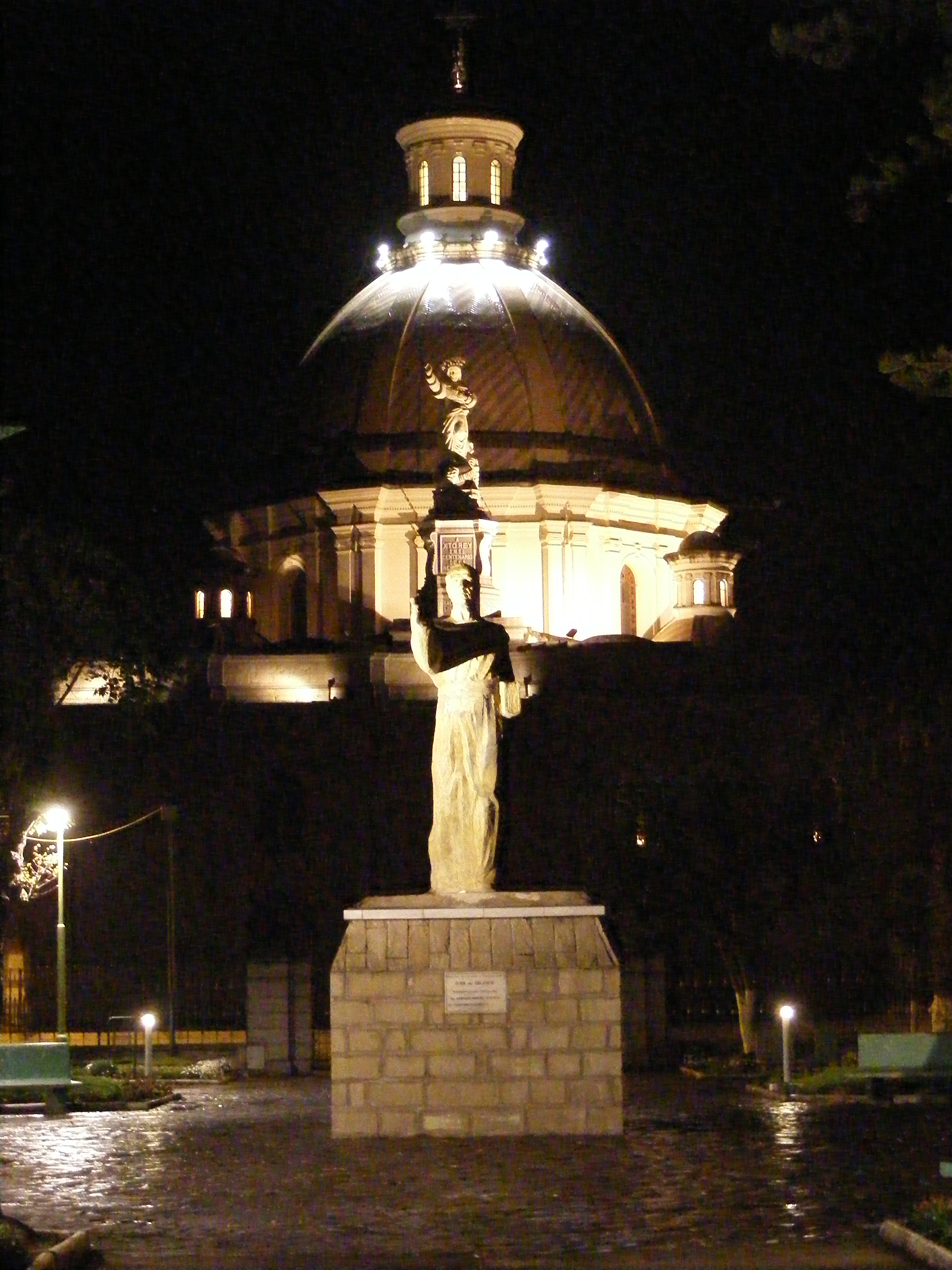 Libertad Park, the Basilica of the Sacred Heart of Jesus in back.